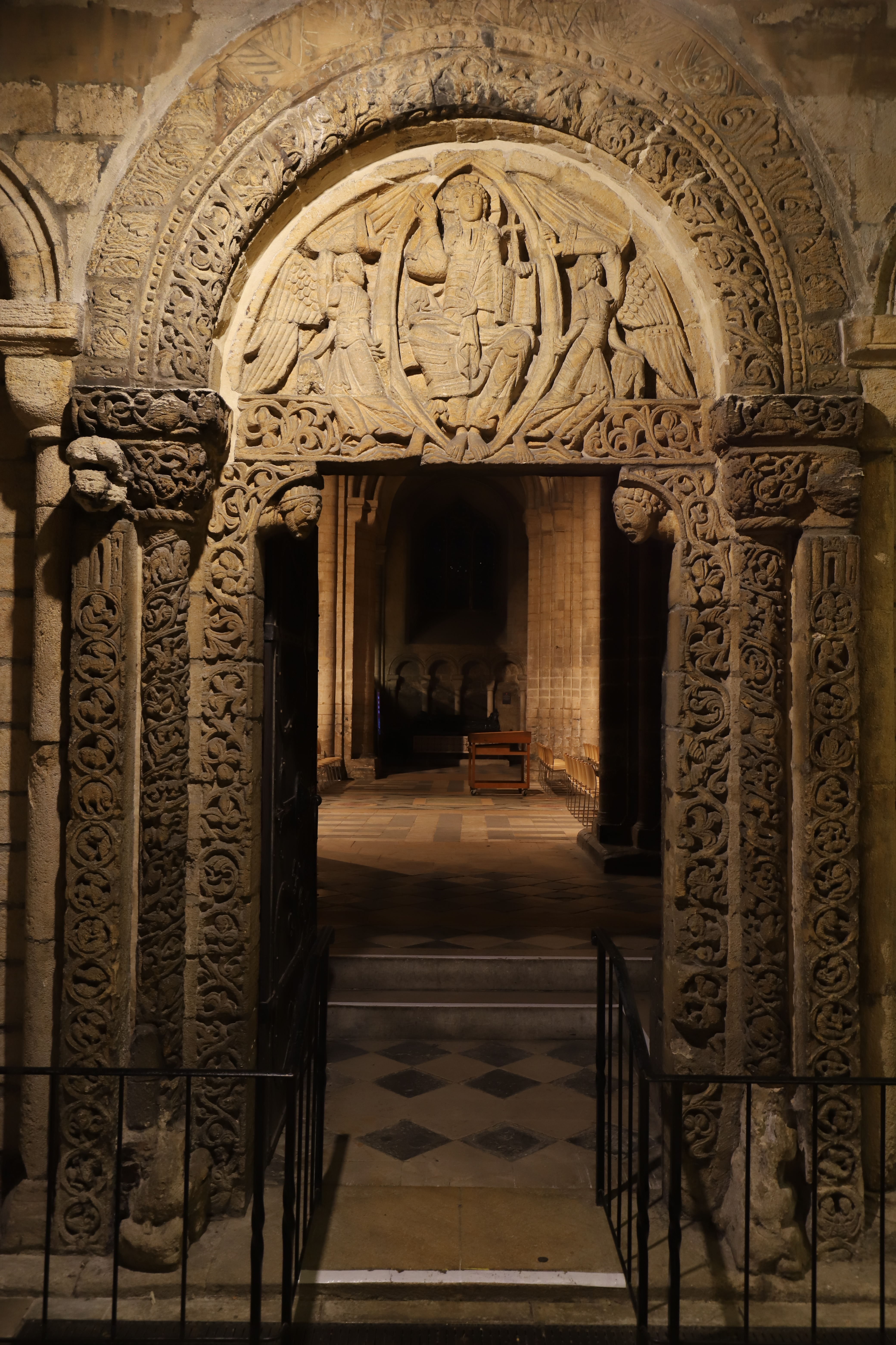 The Prior's Door of Ely Cathedral, Cambridgeshire, England. The tympanum carving above the door of has been dated to 1135.